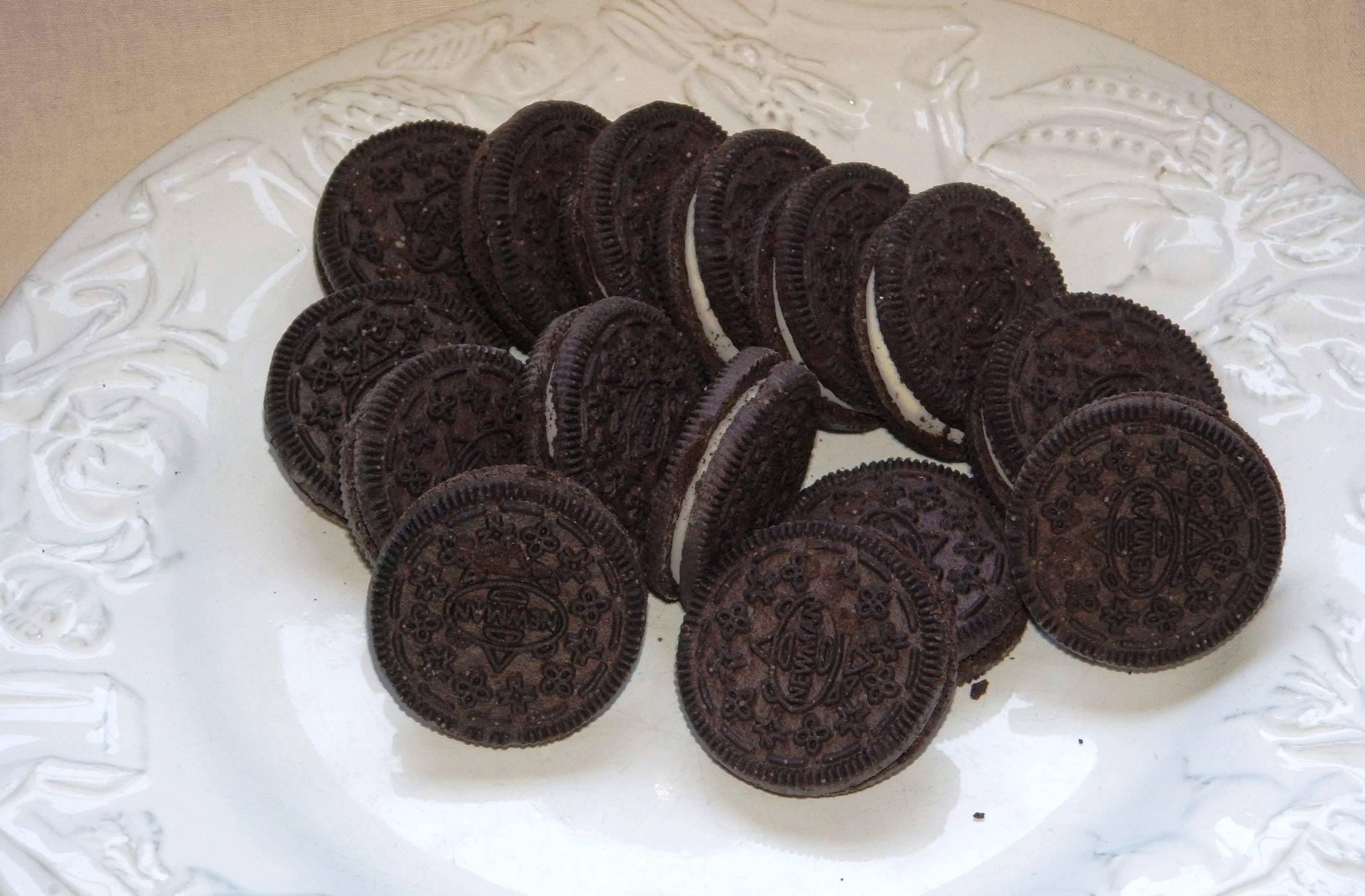 Newman-Os sandwich cookies